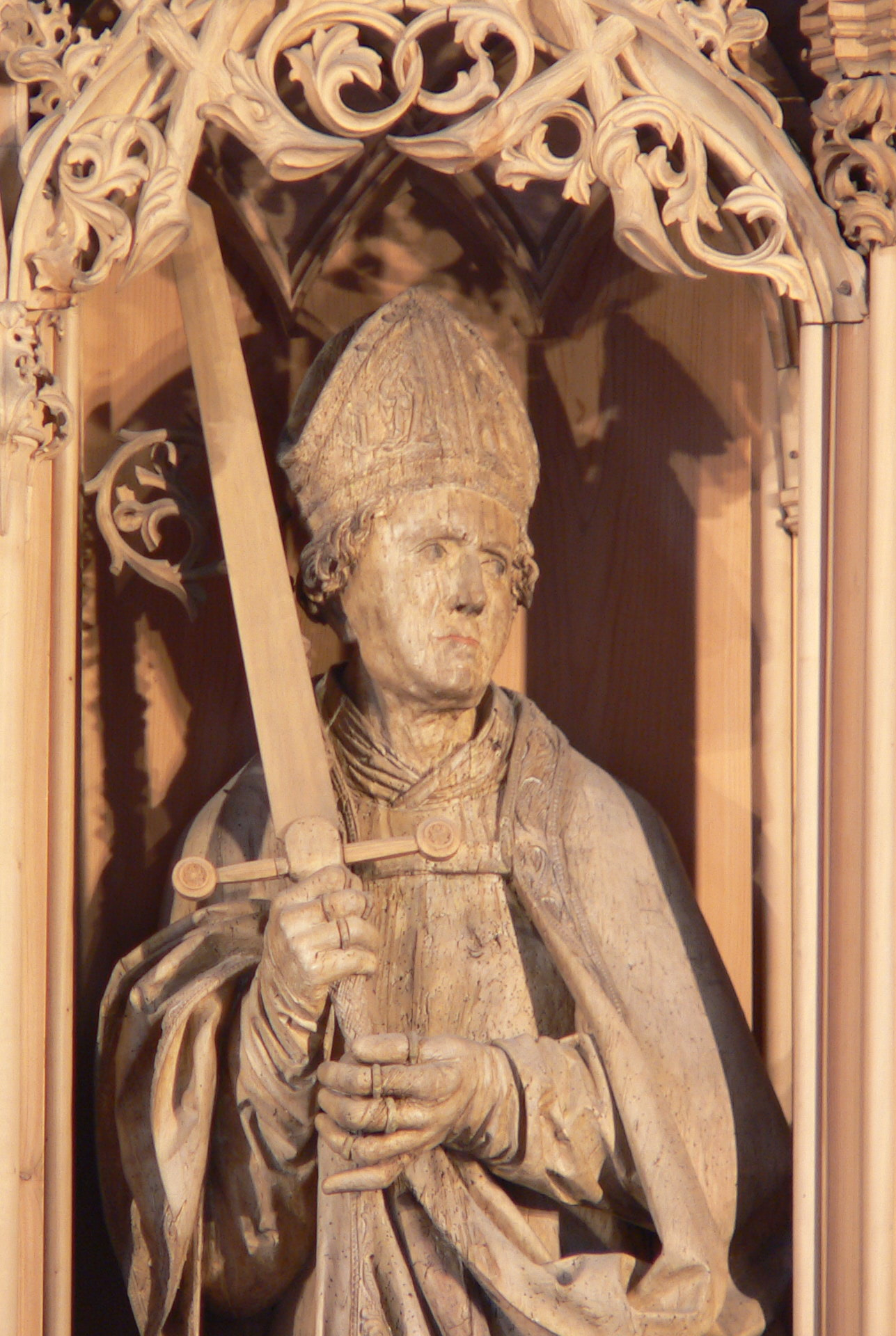 Altar by Hans Seyffer in the Church Kilianskirche of Heilbronn - Germany, the Saint Kilian